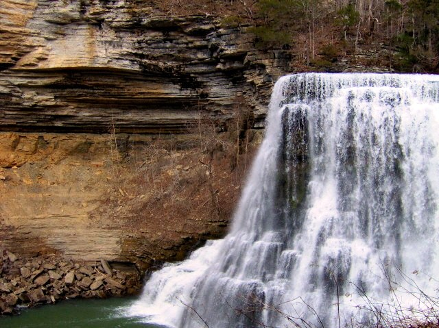 A profile view of Burgess Falls at Burgess Falls State Park near Cookeville, Tennessee, located in the Southeastern United States. This view is from a stairway built by the park that connects the trail atop the bluffs with the gorge below.